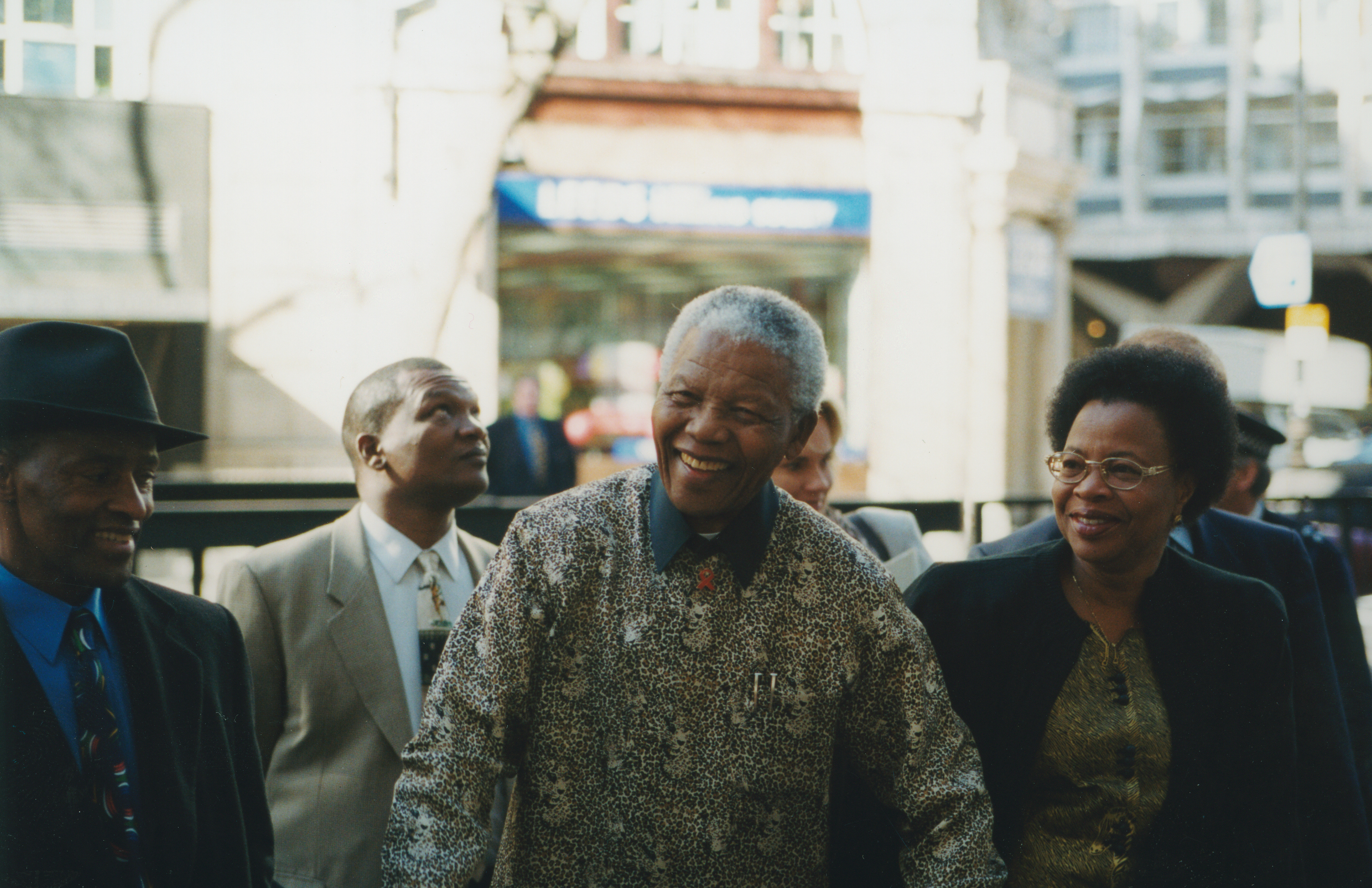 6th April 2000 Visit of Nelson Mandela to give a lecture at LSE on 'Africa and Its Position in the World.' Held at the Peacock Theatre. IMAGELIBRARY/820 Persistent URL